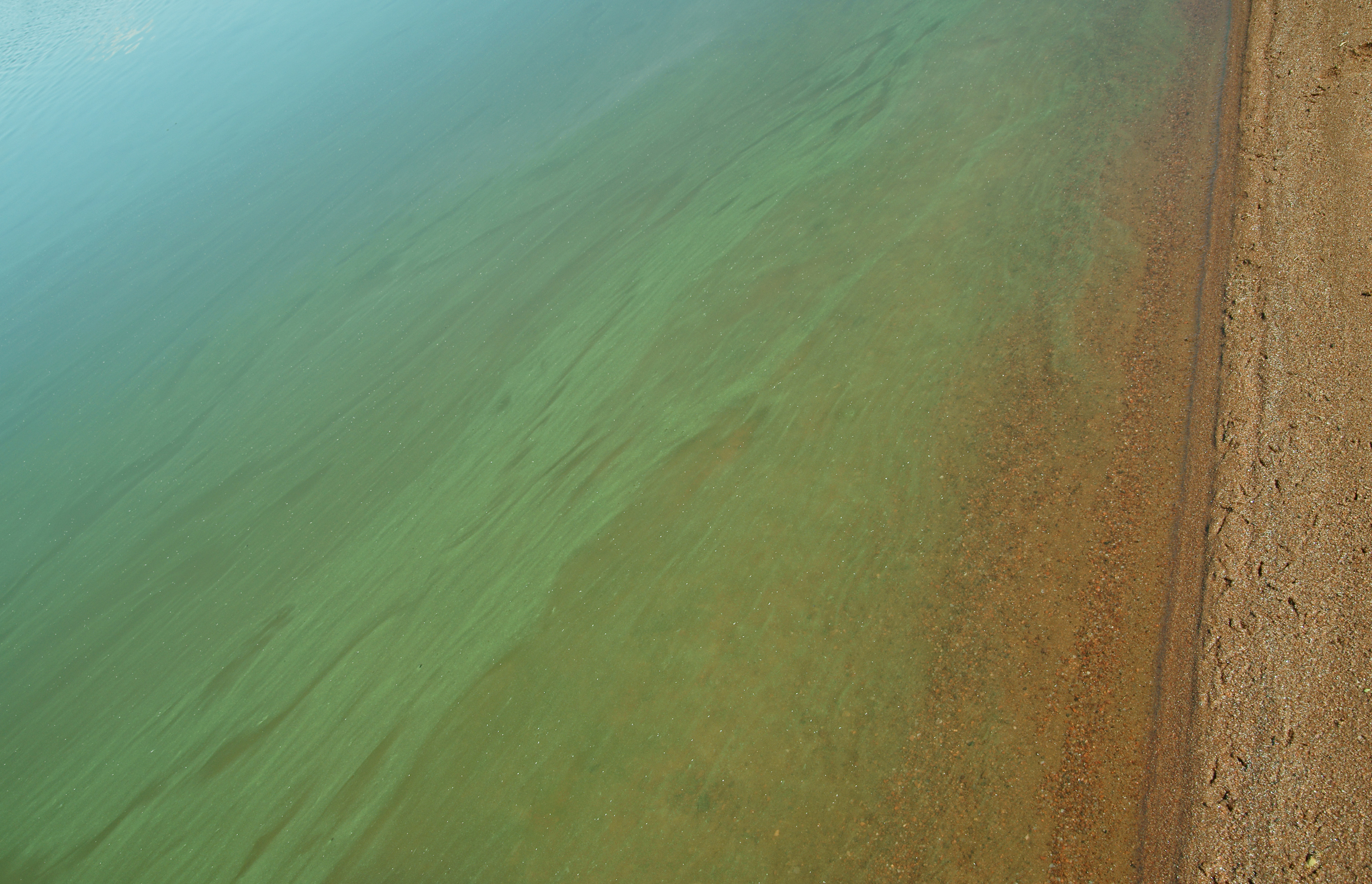 Cyanobacteria in Lake Köyliö.